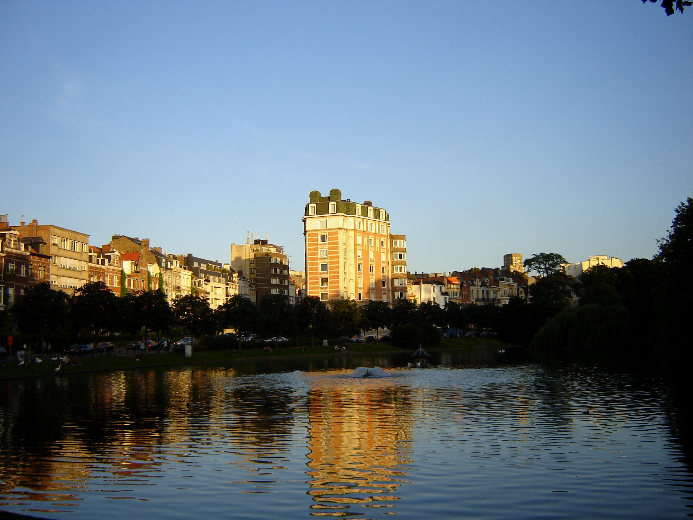 South Pond, Ixelles Ponds, Brussels, Belgium